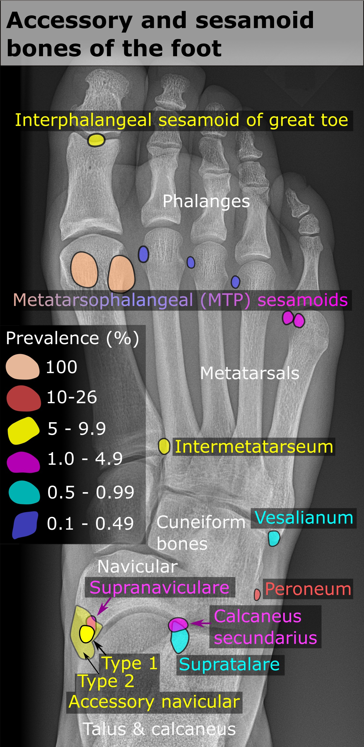 X-ray of the right foot by dorsoplantar projection, with areas indicating where the most common accessory and sesamoid bones would be, colored by their prevalences, and with representative shapes.